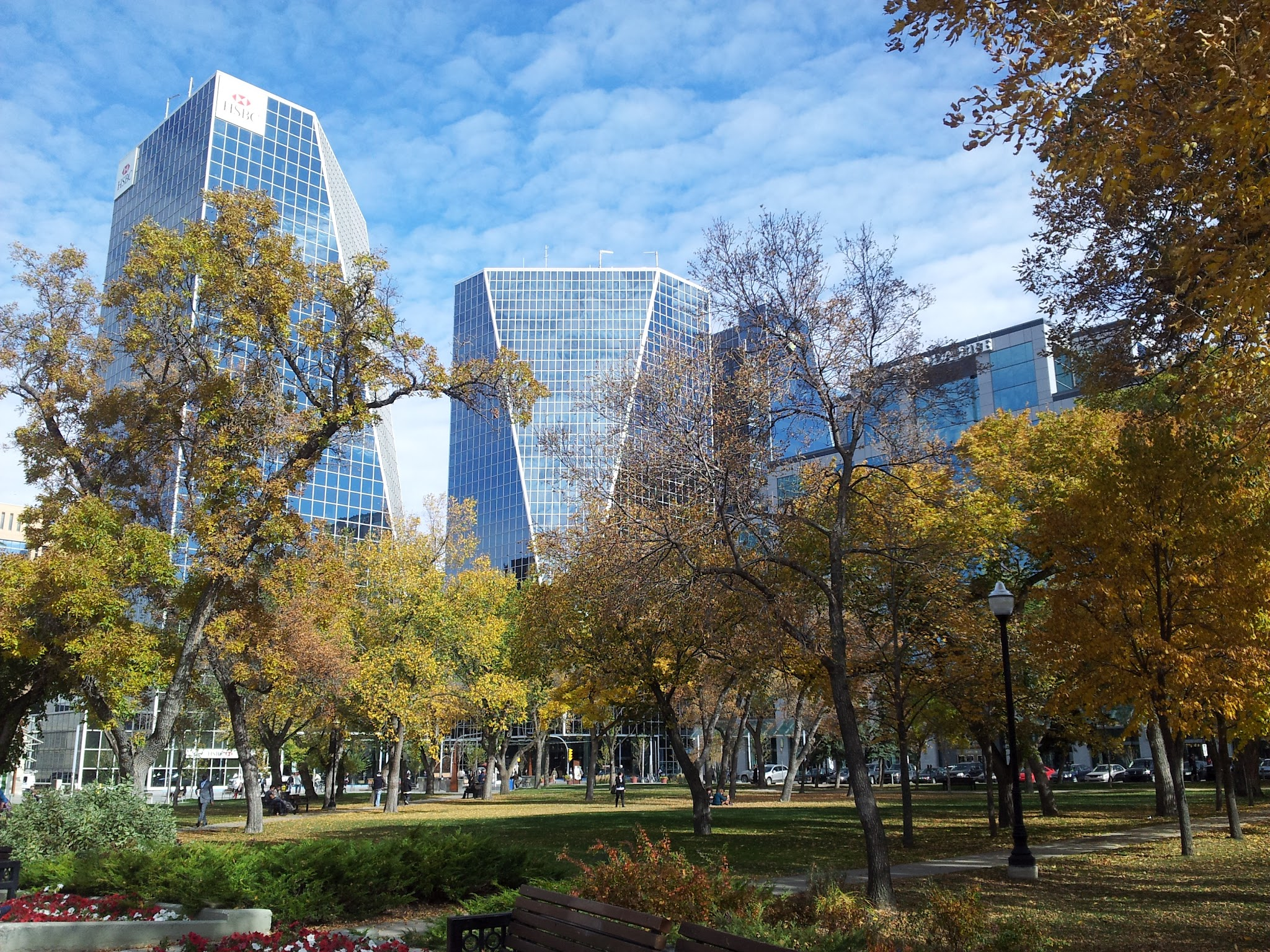 Buildings in Downtown Regina as seen from Victoria Park in fall 2012